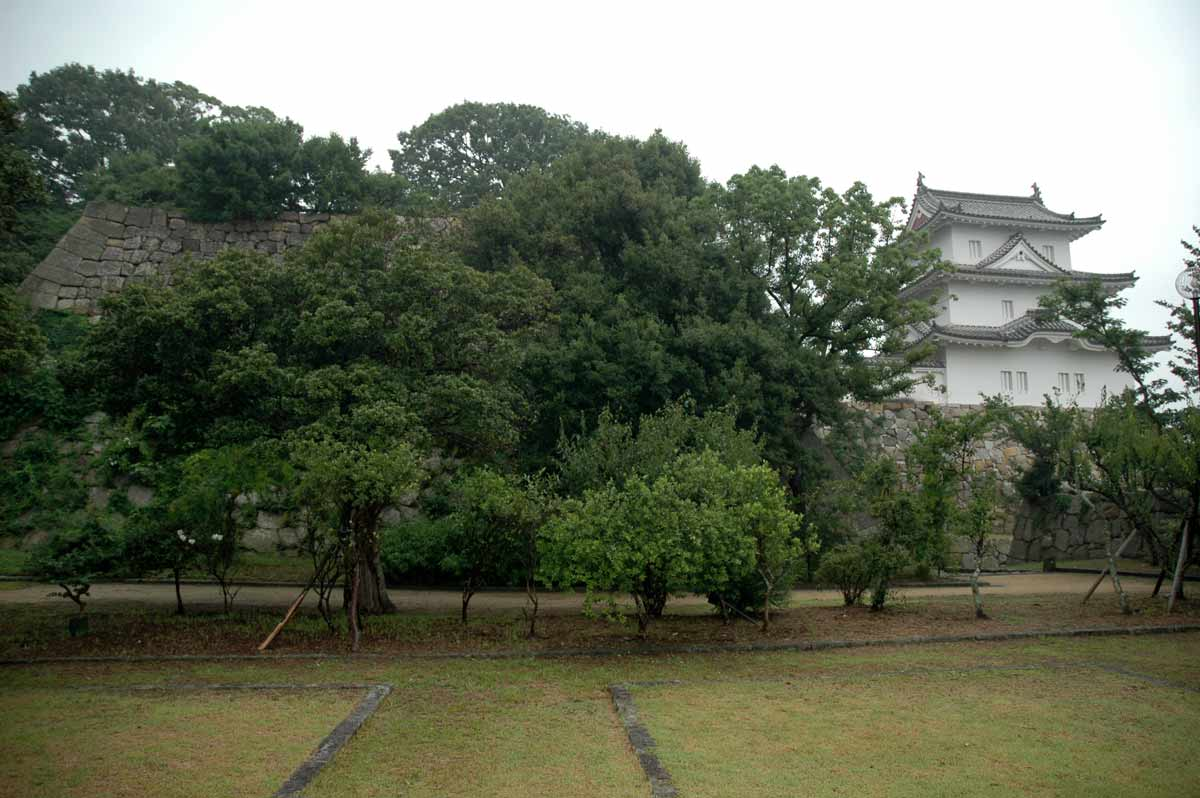 Base of the Keep Tower (left) and Hitsujisaru-yagura (Southwest Turret) of Akashi Castle, Hyogo, Japan (Japan's national important cultural property)